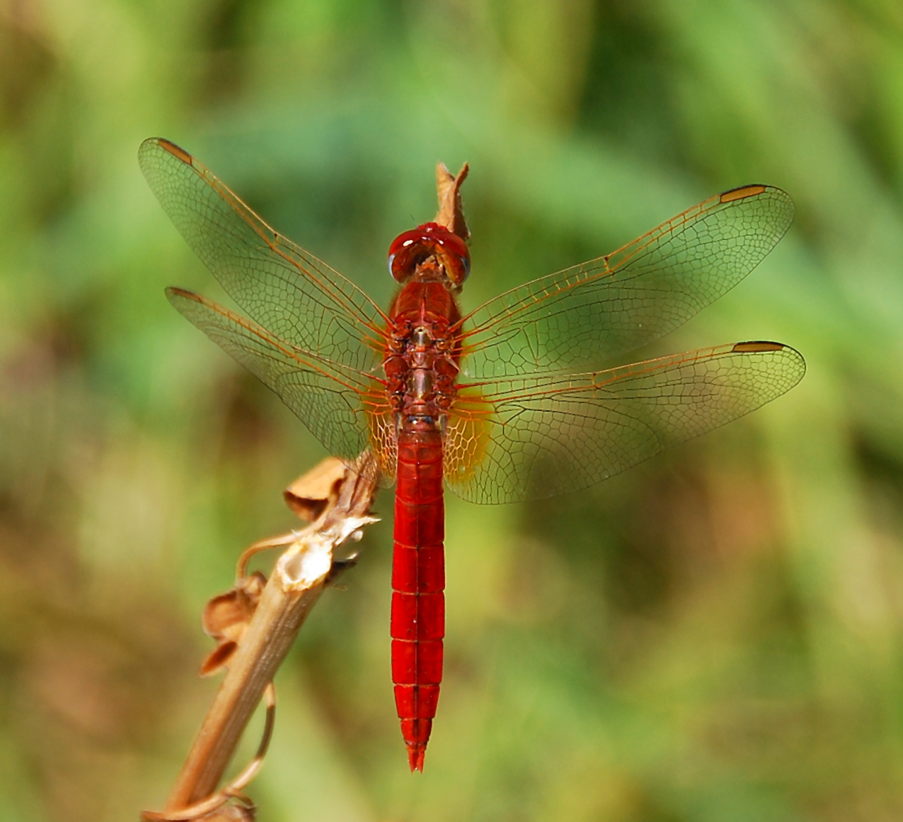 Scarlet darter dragonfly (Crocothemis erythraea)